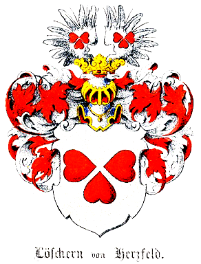 Coat of Arms of Löschern von Herzfeld family